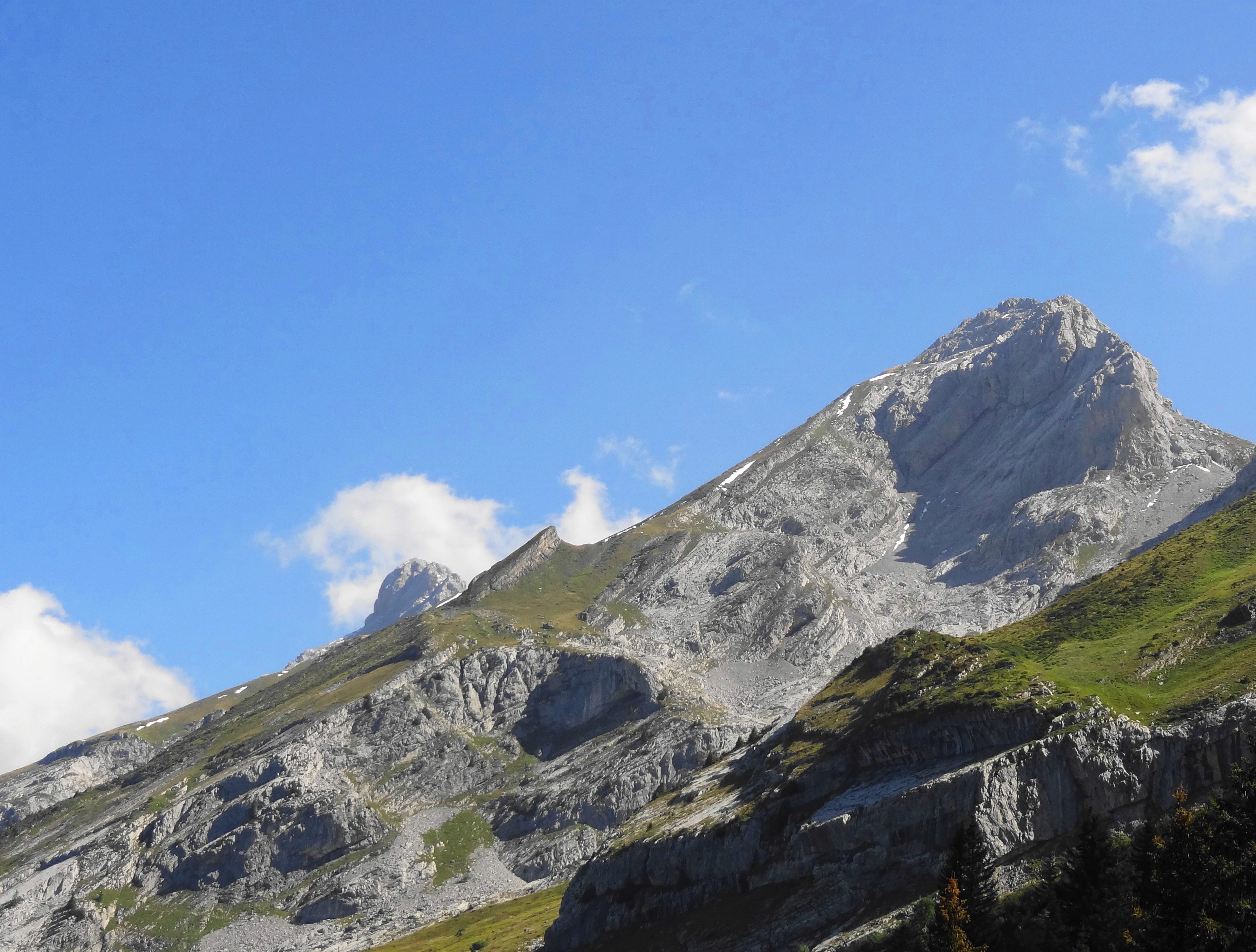 The Mont Charvet (2538m) in the Bornes-Aravis mountains (Upper-Savoy), French Alps.